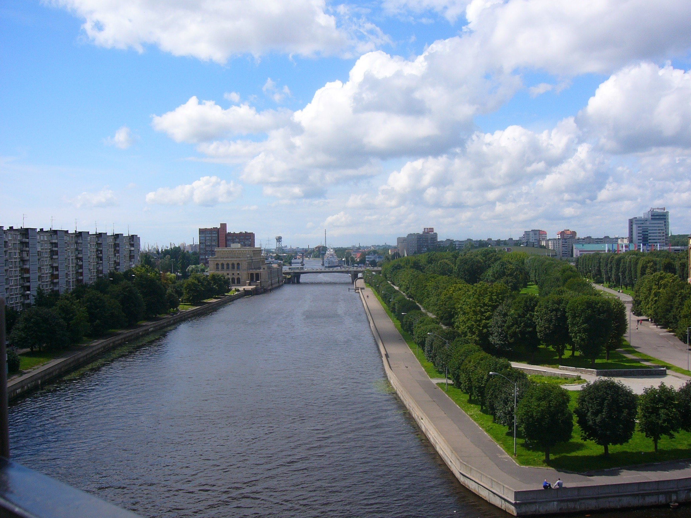 The view of the river Pregolya and the I. Kant island from the observing place of the "Fishery Village".